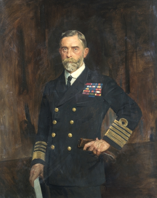 A 1922 portrait of Admiral of the Fleet Sir Charles Edward Madden, 1st Baronet, GCB, OM, GCVO, KCMG (5 September 1862 – 5 June 1935), a Royal Navy officer who was Chief of the Staff to Sir John Jellicoe from 1914 to 1916 and Second-in-Command to Sir David Beatty from 1916 to 1919. He was Commander-in-Chief, Atlantic Fleet after the War and served as First Sea Lord in the late 1920s.